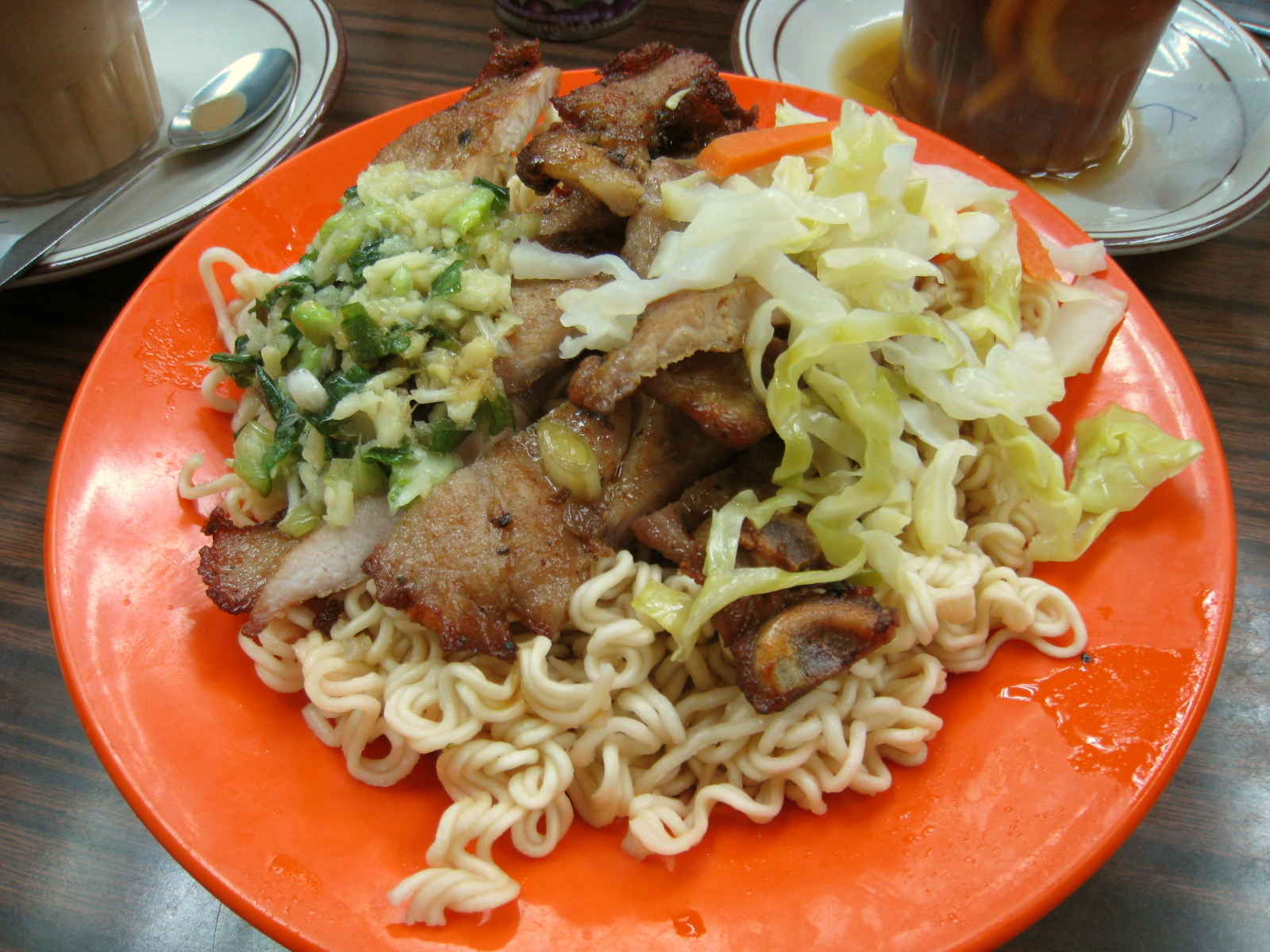 Lan Fong Yuen fried noodles with pork chops